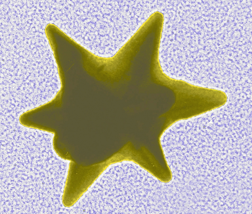 Transmission electron microscope (TEM) image of a star-shaped gold nanoparticle described in Original caption: "NIST scientists found that gold and silver nanostars improved the sensitivity of Surface Enhanced Raman Spectroscopy (SERS) 10 to 100,000 times that of other commonly used nanoparticles. These uniquely shaped nanoparticles may one day be used in a range of applications from disease diagnostics to contraband identification. Color added for clarity"